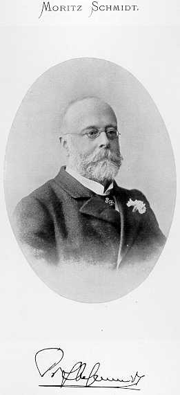 a photograph of the German philologist Moritz Schmidt (1823–1888)